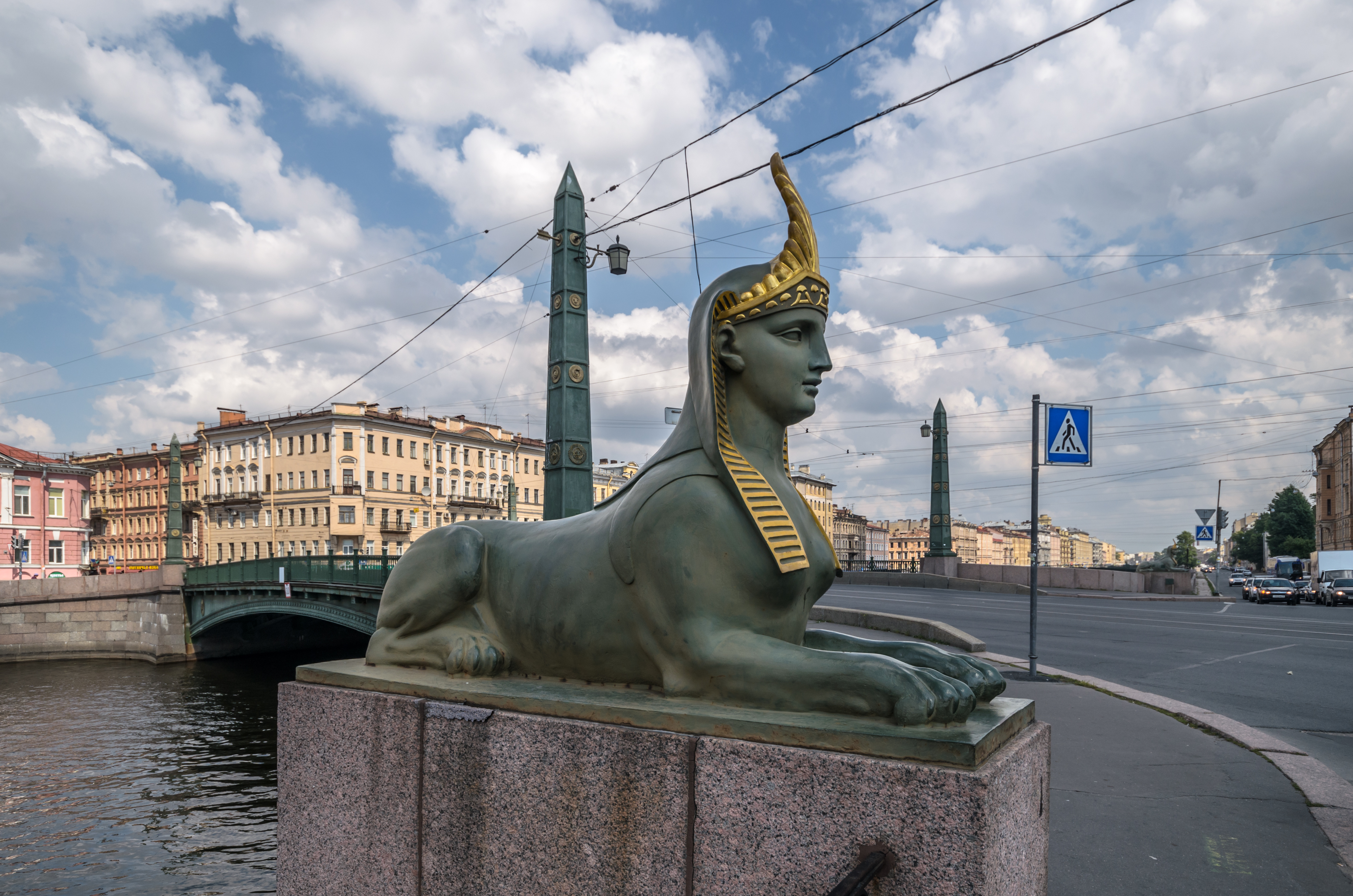 Spynx at Egipetsky Bridge in Saint Petersburg